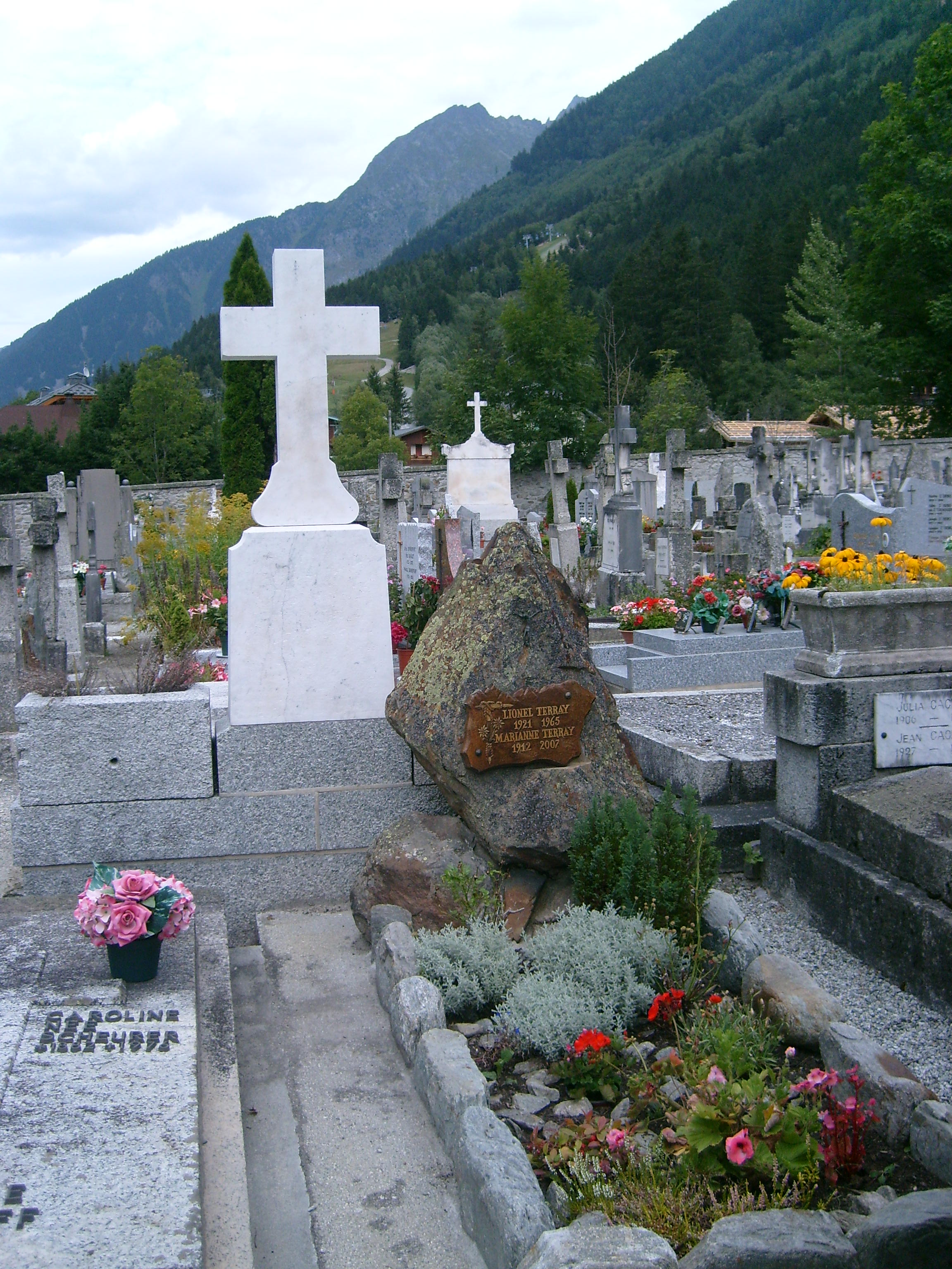 This is photo of Lionel Terray tomb which is located in cemetery in Chamonix